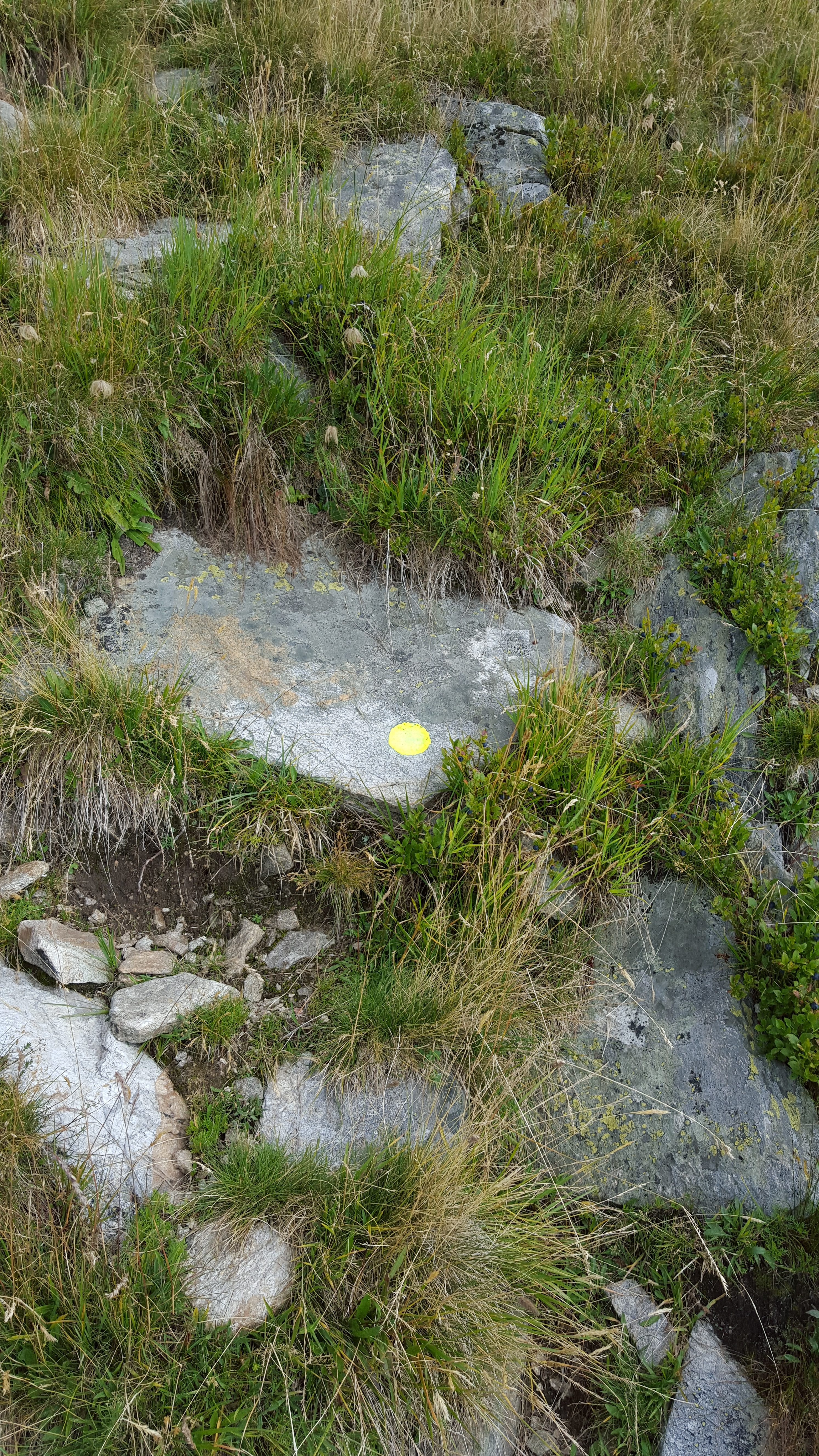 Marks on the ridge between Matro and Passo dei Laghetti (Faido/Acquarossa/Sobrio/Serravalle, Ticino, Switzerland)